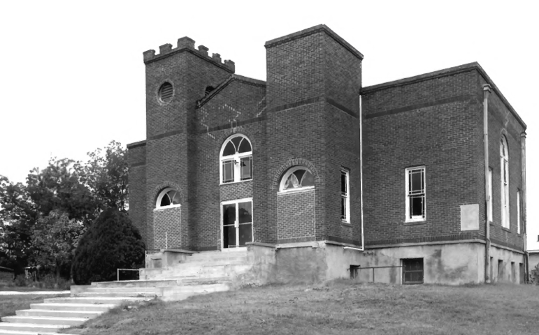 Antioch Baptist Church (built 1903) in Boley, Okfuskee County, Oklahoma. A contributing property to the Boley Historic District, which is a National Historic Landmark.